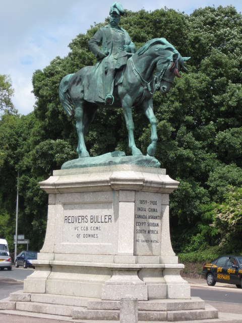 Statue of General Sir Redvers BullerGeneral Sir Redvers Henry Buller was born in nearby Crediton in 1839, he served in many campaigns including the Anglo-Zulu and the Second Boer War. He was awarded the Victoria Cross.